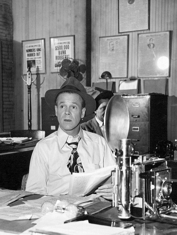 Photo of Dan Duryea from Ford Theatre. The episode is Double Exposure. The item has no copyright markings on it as can be seen in the links above.